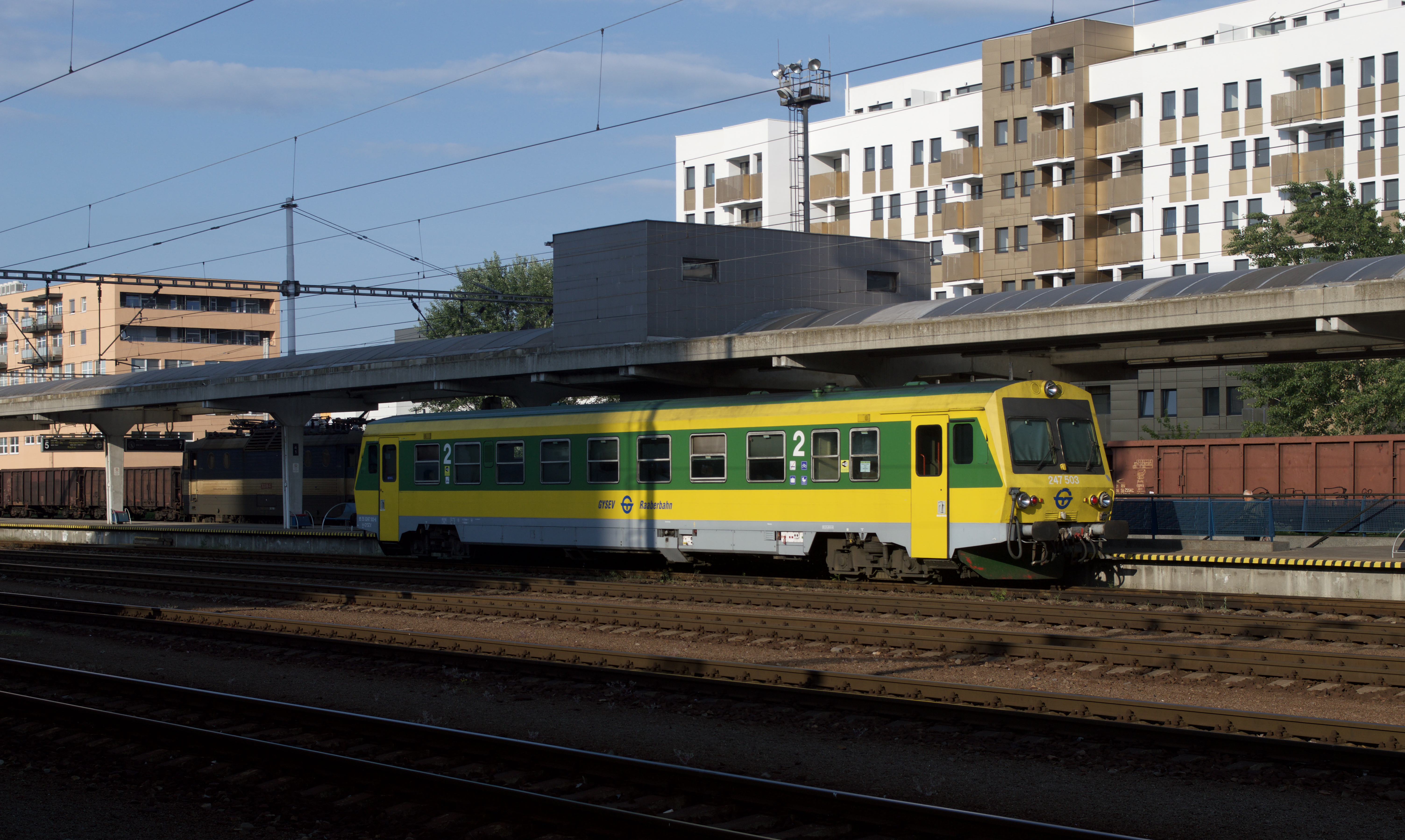 GySEV single diesel railcar inherited from ÖBB (class 547) no. 247503 seen at Bratislava-Petržalka on 13 May 2018 on train Os2809, 18:49 Bratislava-Petržalka to Hegyeshalom. Regular local services started up in December 2017 after a gap of several years on the cross-border route via Rajka lost long distance international trains.